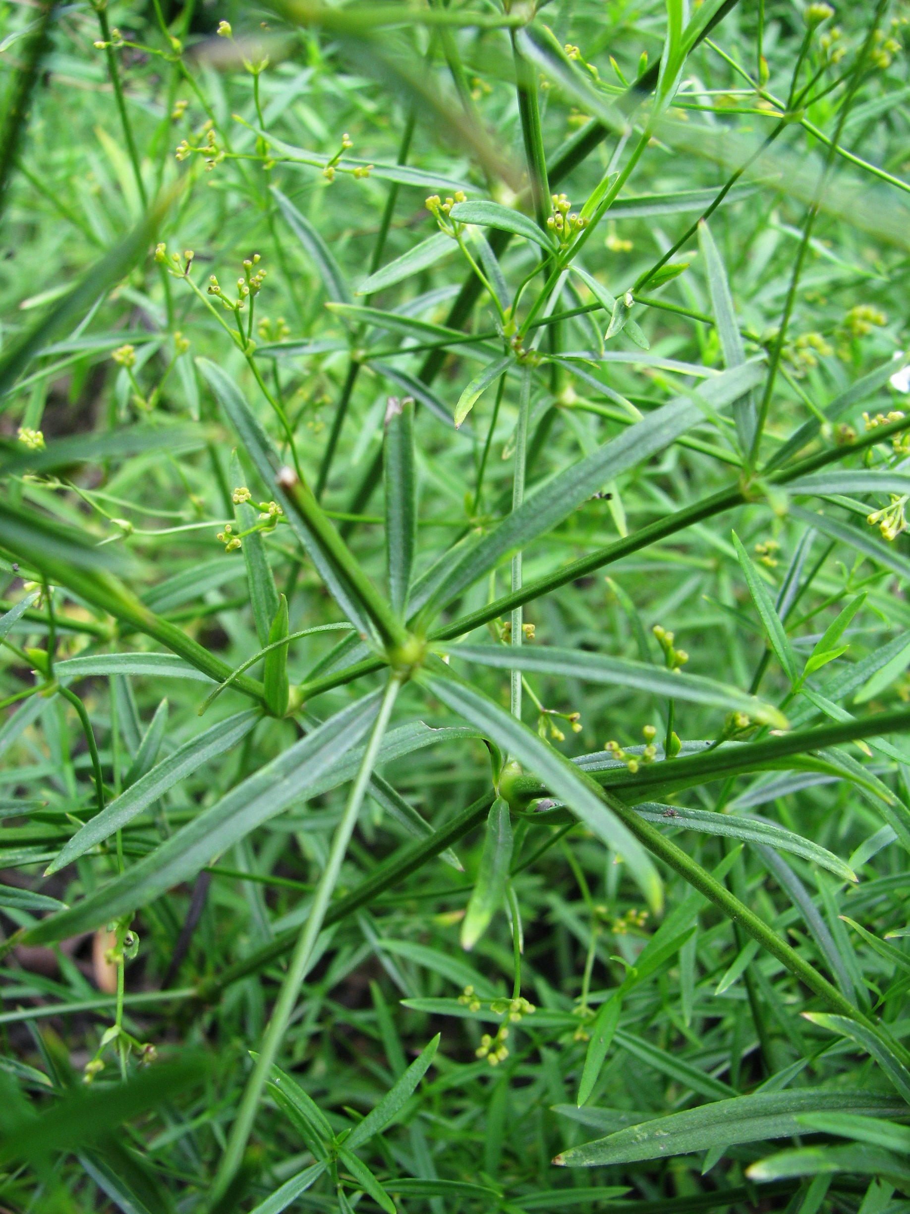 Asperula tinctoria cultivated in Wrocław University Botanical Garden, Poland.